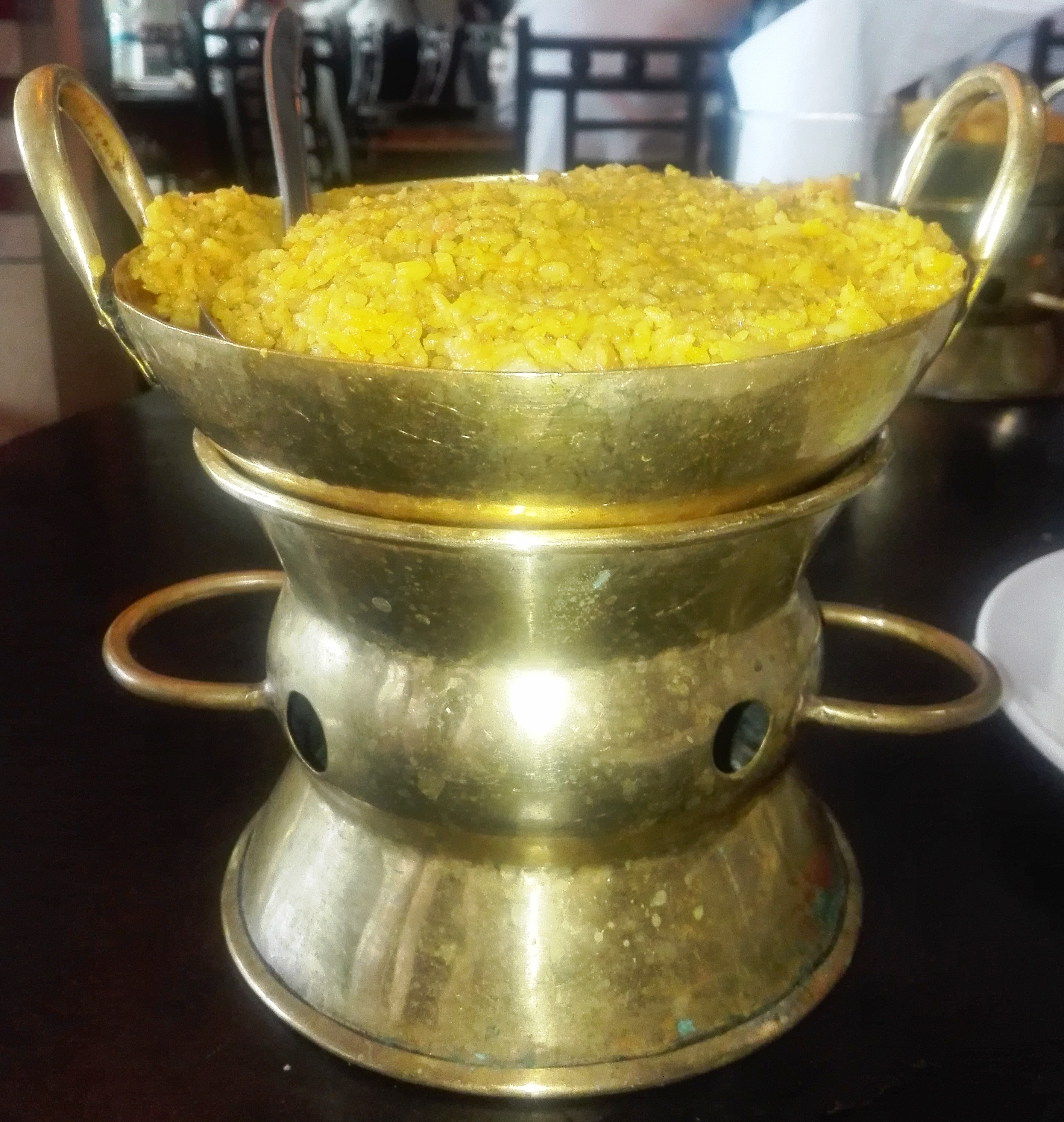 Korai Khichuri, a bangali dish